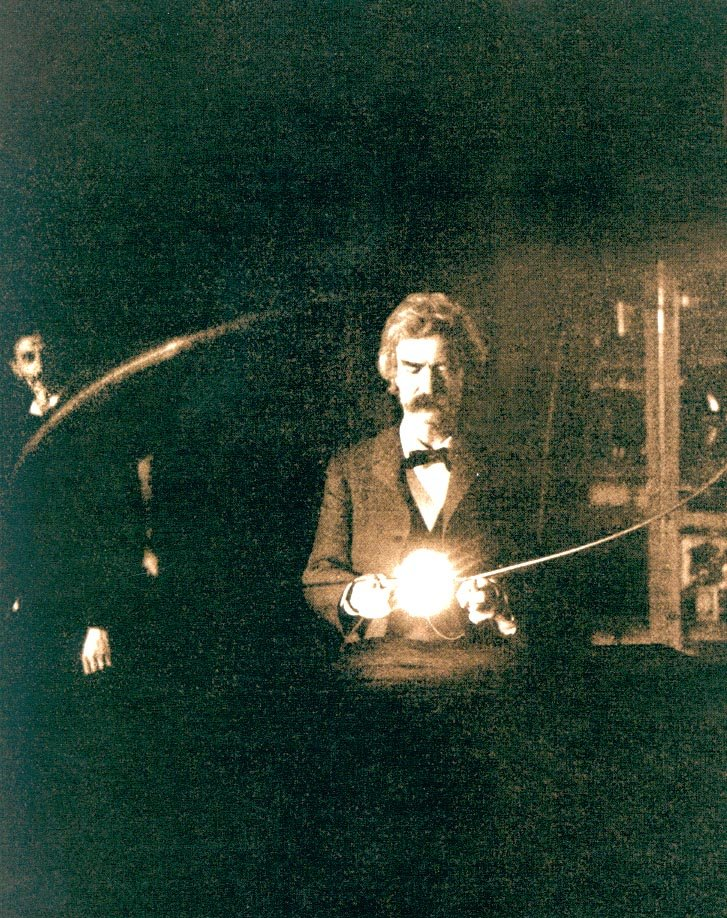 Twain in the lab of Nikola Tesla, spring of 1894 Taken in the spring of 1894, and originally published as part of an article by T.C. Martin called "Tesla's Oscillator and Other Inventions" that appeared in the Century Magazine (April 1895).